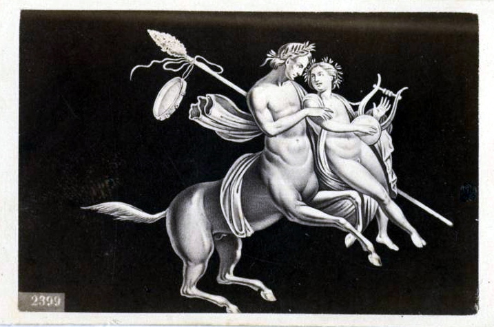 Giorgio Sommer (1834-1914) & Edmond Behles (1841-1924), Chiron and Achilles. Photograph of a drawing taken from a fresco from Ercolano. Catalogue # 2399.